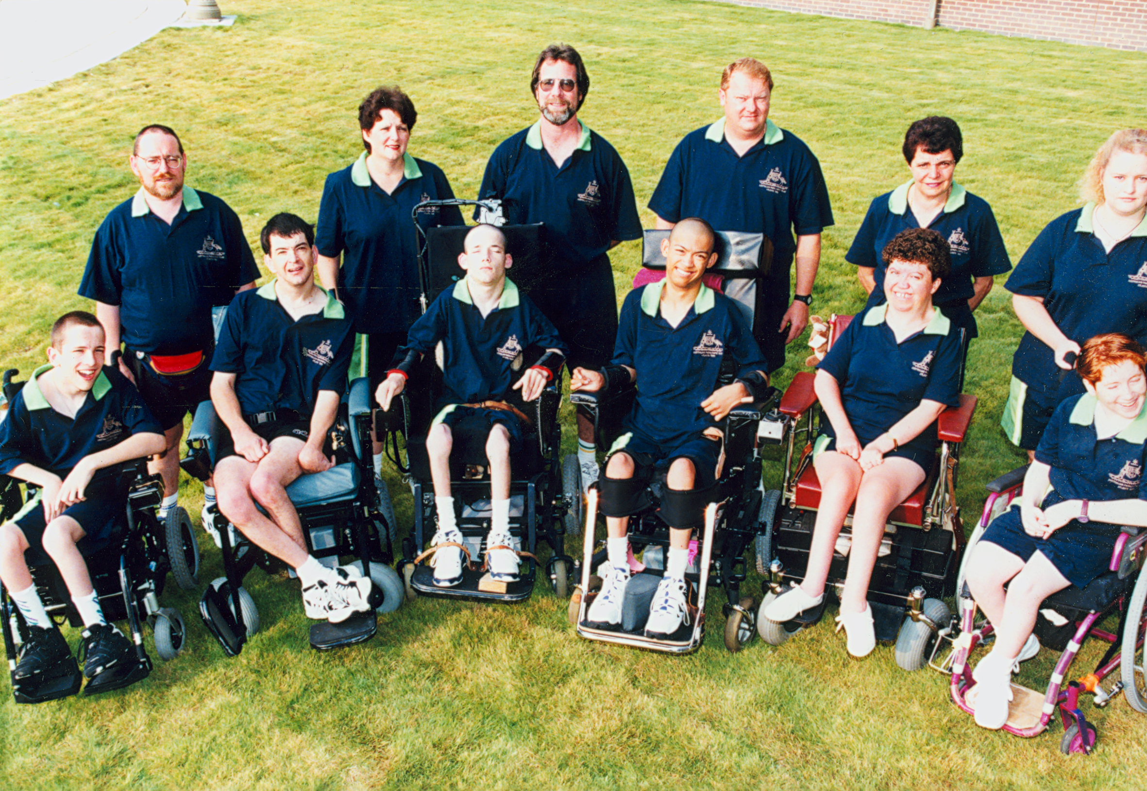 Australian Boccia team - athletes, coaches and ramp assistants - at the Atlanta 1996 Paralympic Games. Front row L-R, athletes Scott Elsworth, John Richardson, Kris Bignall, Tu Huyhn, Lyn Coleman, Fiona Given. Back row L-R, Ricky Grant (assistant coach), Patricia Bignall (carer/ramp assistant), Thomas Organ (head coach), Donald Blackman (carer/ramp assistant), Waltraud (Joan) Stevens (carer/ramp assistant), Joanne Titterton (carer/ramp assistant).